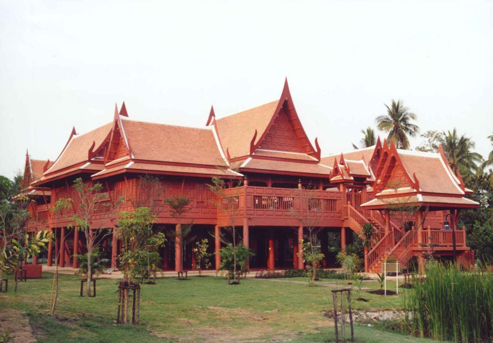 Rama II park in Amphawa, Samut Songkhram. Group of traditional Thai houses. Photo taken by User:Ahoerstemeier in January 2006.